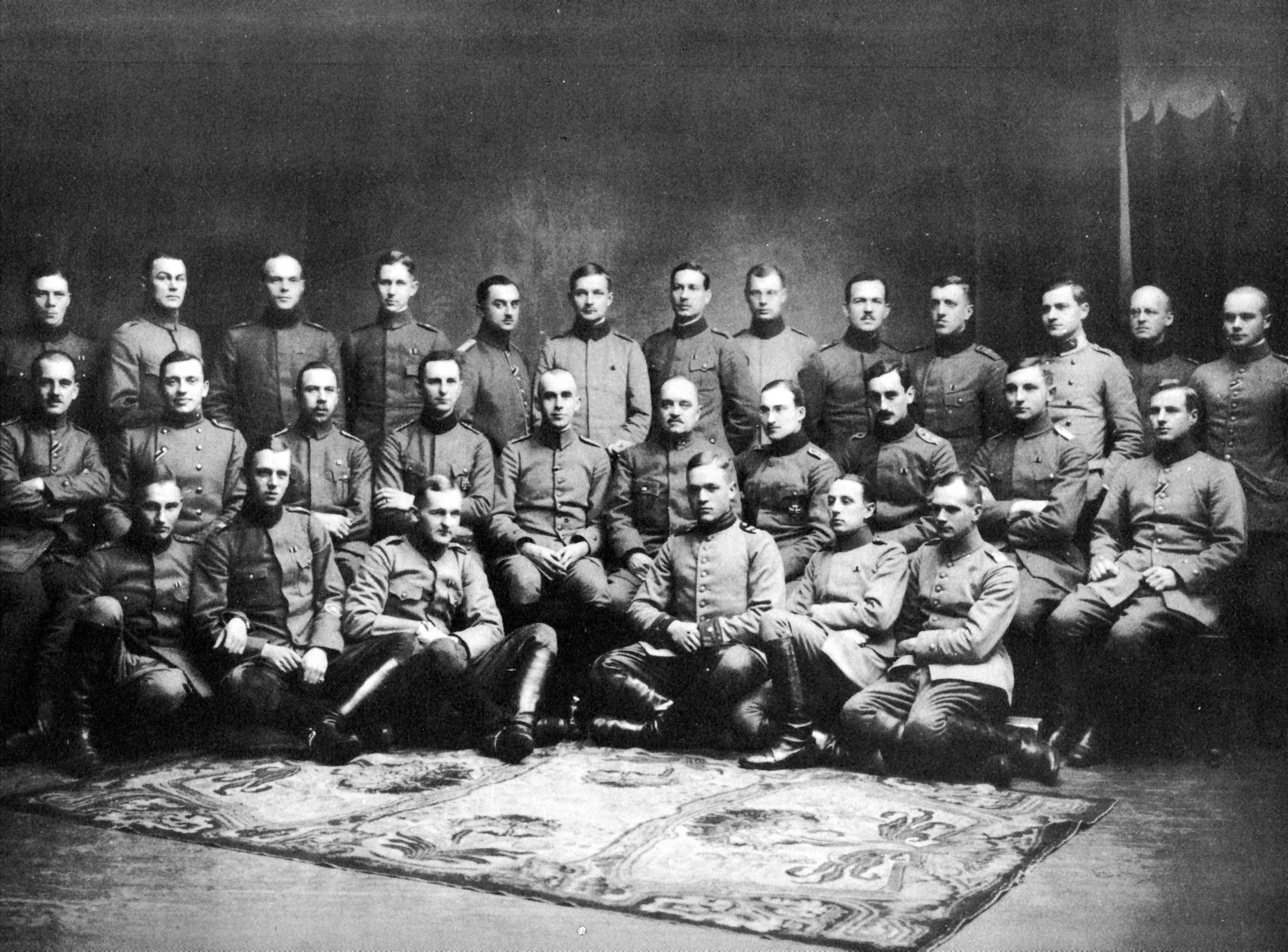 Officers of the Royal Prussian 27th Jäger Battalion (Königlich Preussisches Jägerbataillon Nr. 27) in Liepāja (Libau) in 1917